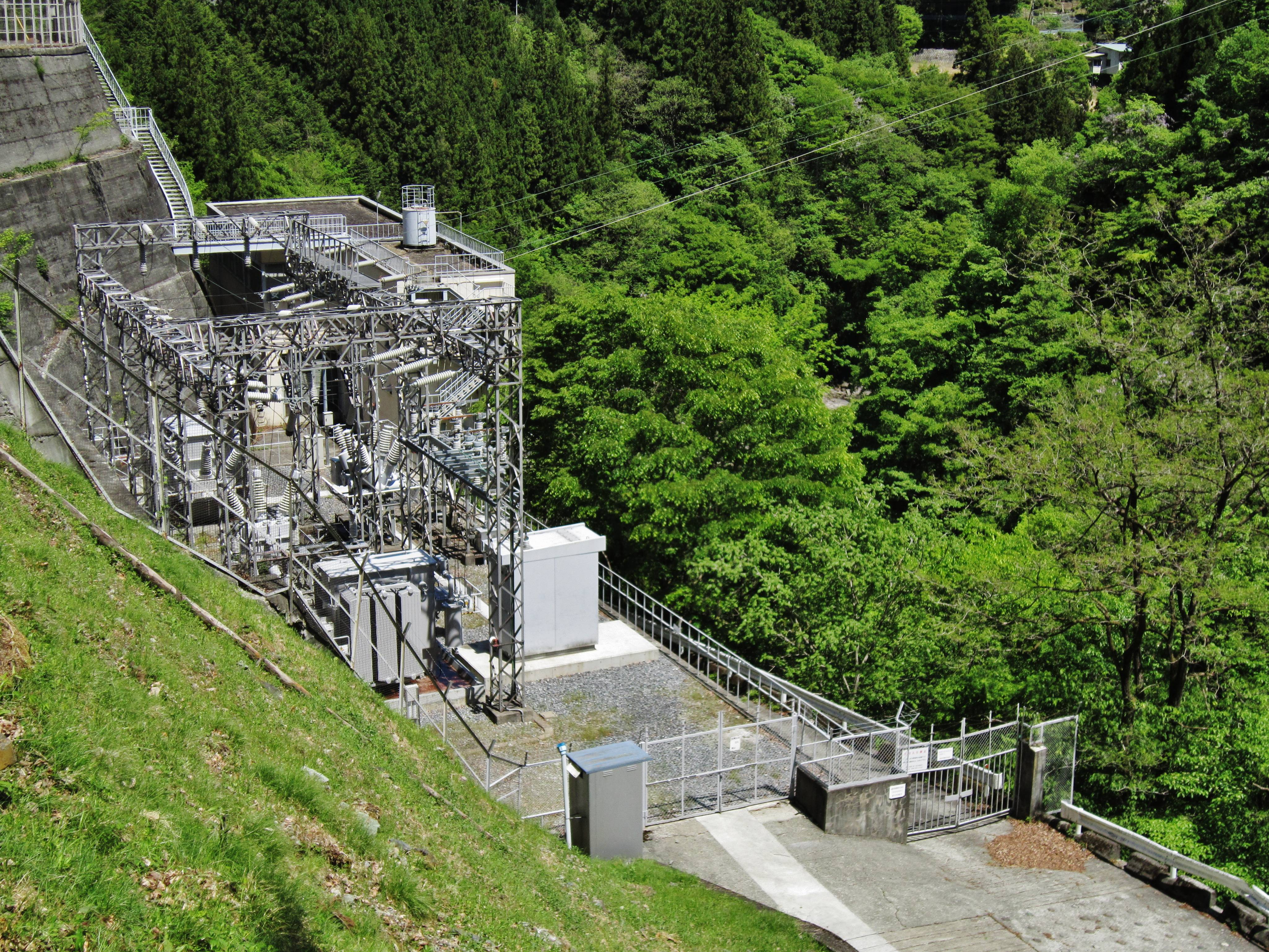 Tochimoto hydroelectric power station.